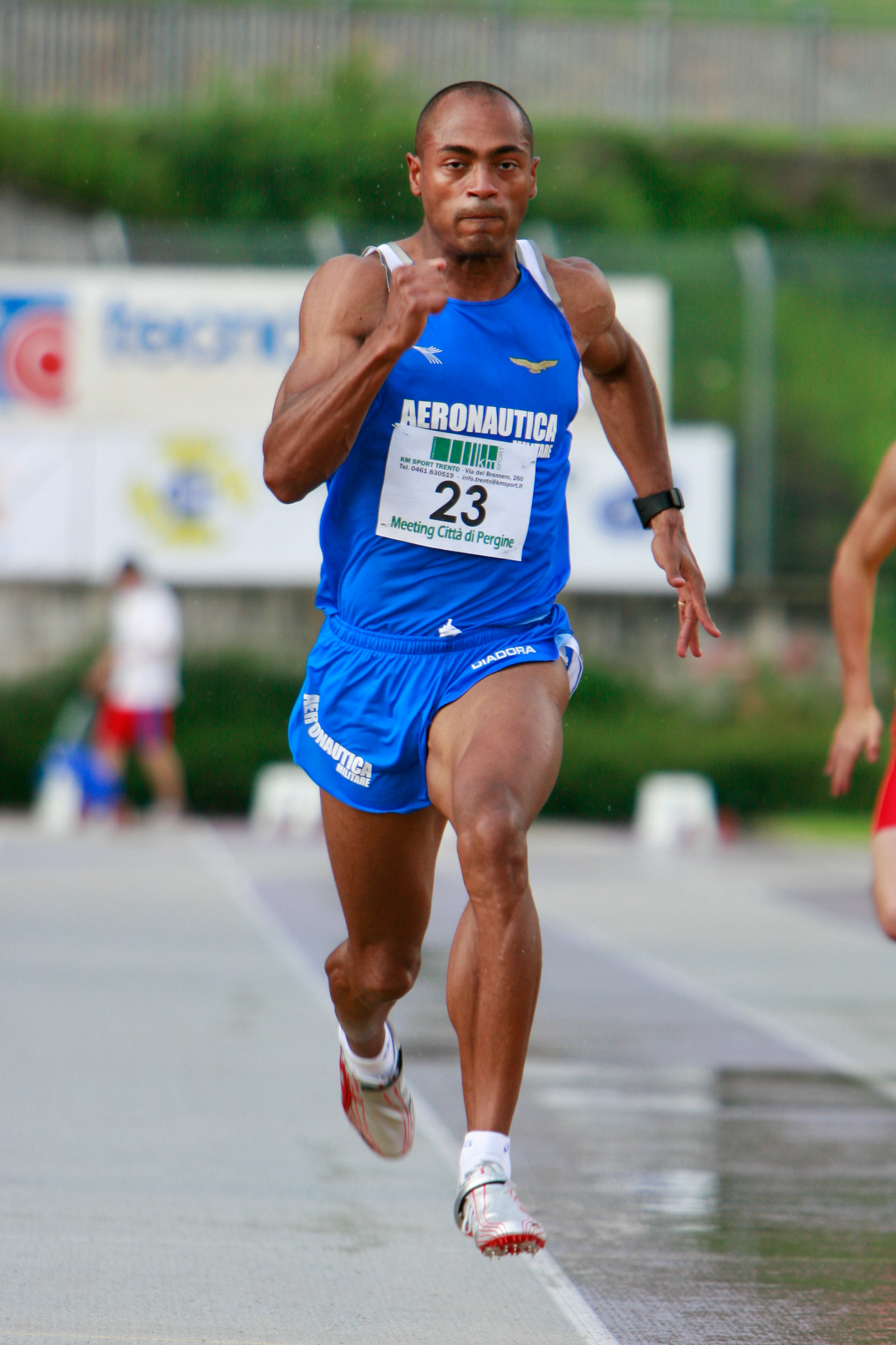 Jacques Riparelli in action during the Meeting of Pergine